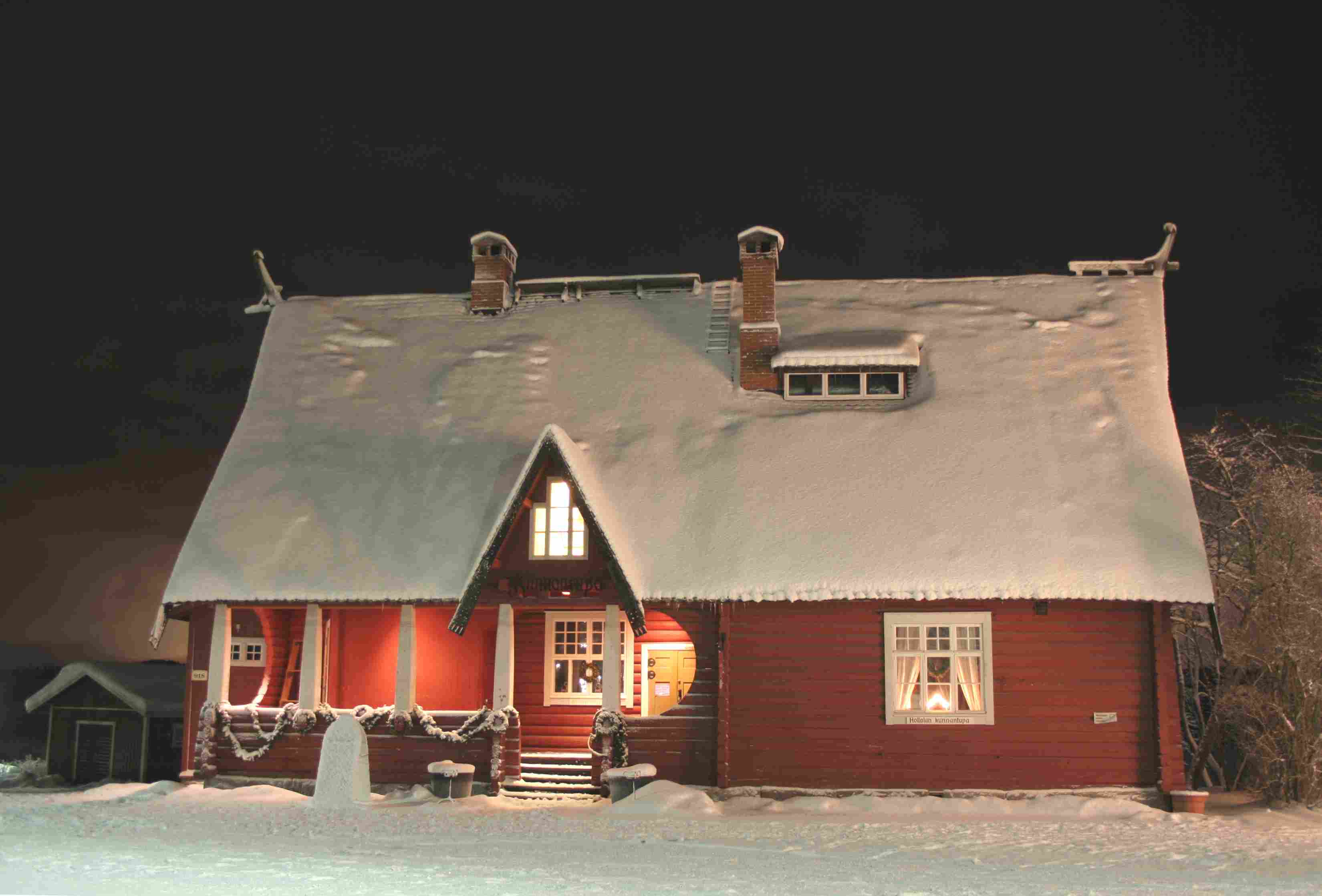 The old municipal house of the municipality of Hollola, Finland, in the old center of Hollola near the city of Lahti. Designed by architect Vilho Penttilä and built in 1902.